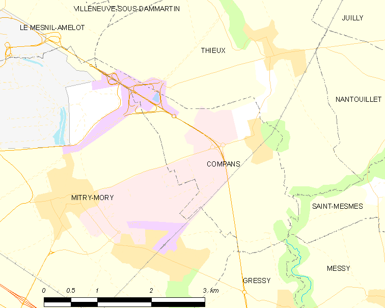 Map of French municipality Compans